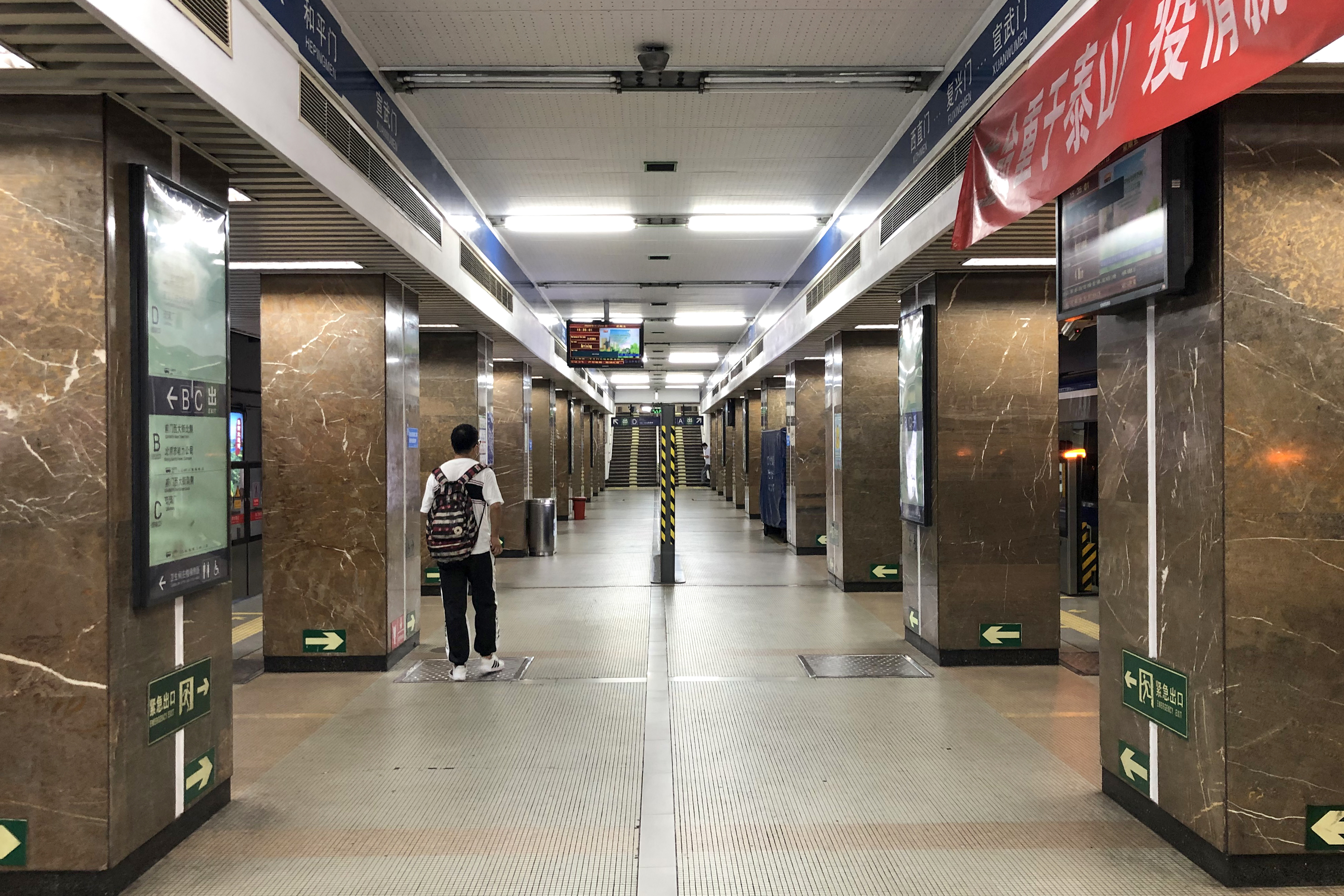 Same problem: Pillars.